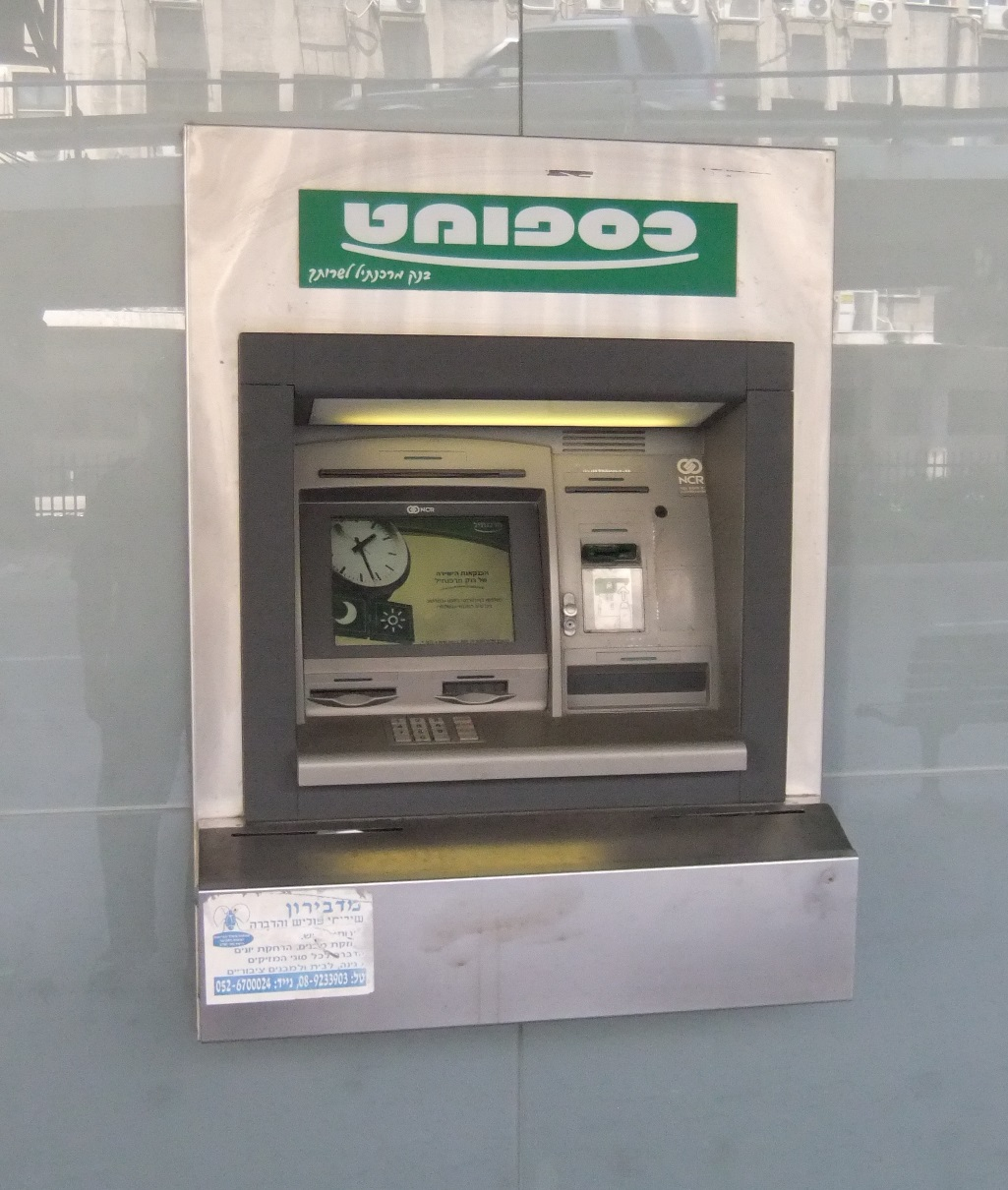 Automatic teller machine in Tel Aviv